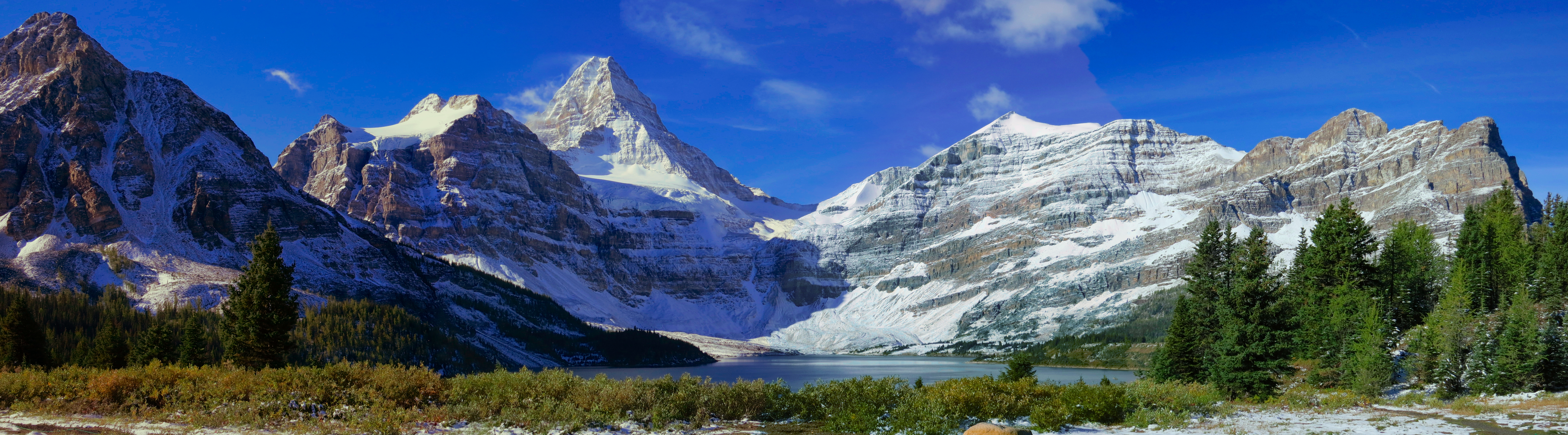 Mount Assiniboine Provincial Park. Lake Magog area